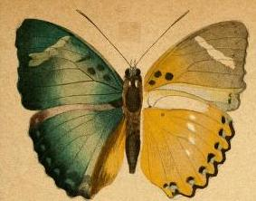 Deutsche Entomologische Zeitschrift (Iris, Dresden) Plate 1 Otto Staudinger, 1891 Neue exotische Lepidopteren. Deutsche Entomologische Zeitschrift, Iris 4:61-157. Euphaedra preussi Staudinger, 1891 [Cameroon - Zaire]